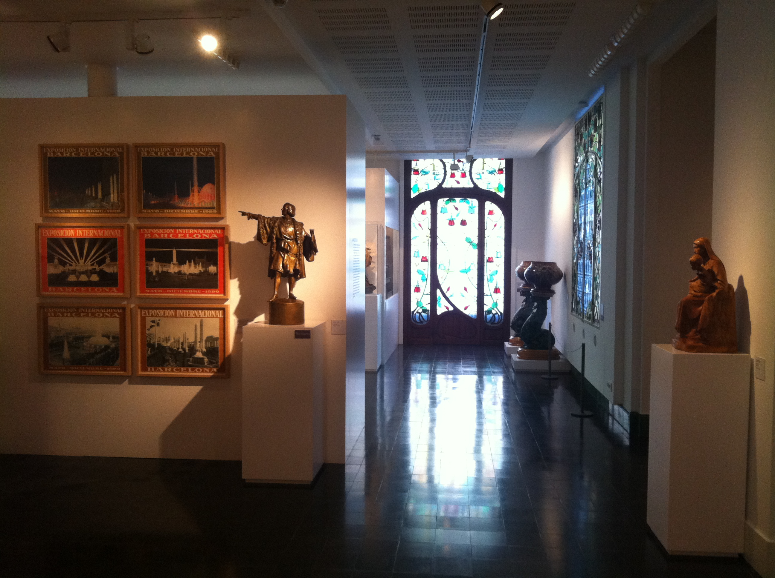 Exhibit rooms in the Museu d'Art de Cerdanyola